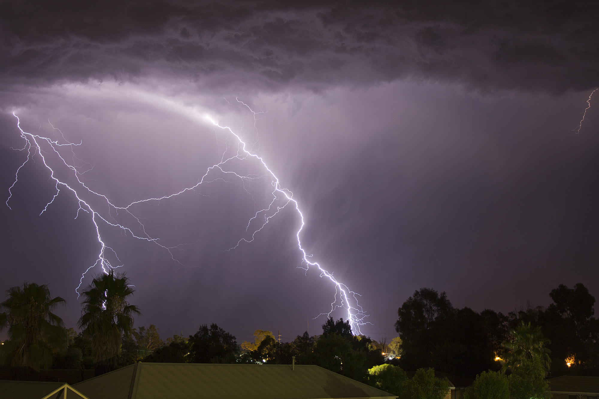 Cloud to ground lightning strikes south-west of Wagga Wagga during a dry thunderstorm, which resulted in a number of fires in the Riverina region. Because this photograph concerns privacy since this was taken on a private property, only an approximate location is provided: Wagga Wagga (suburb), New South Wales, Australia